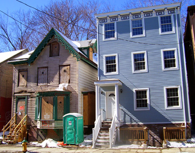 Photographed by Daniel Case 2006-03-05